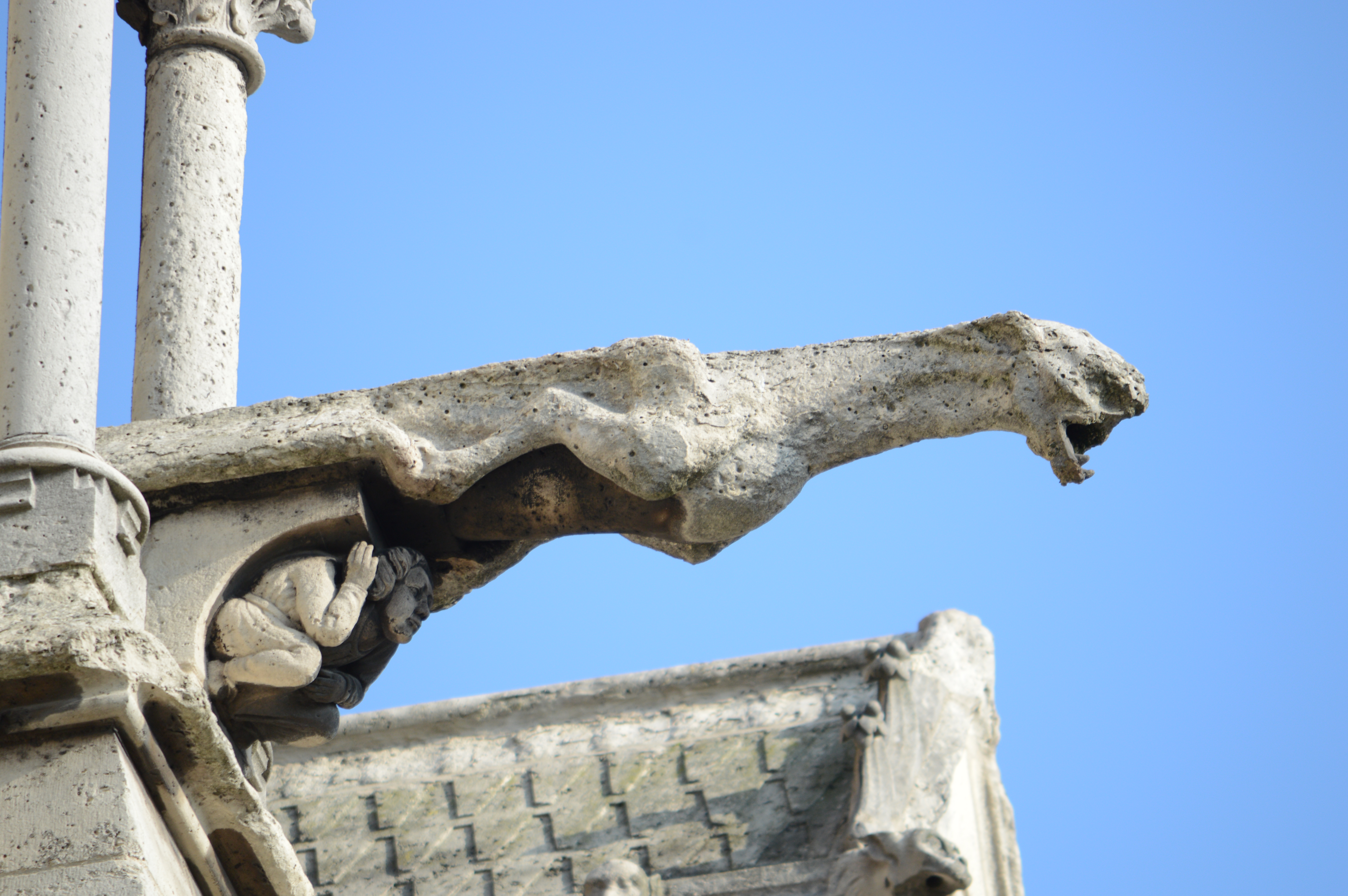 Gargoyles of Notre-dame